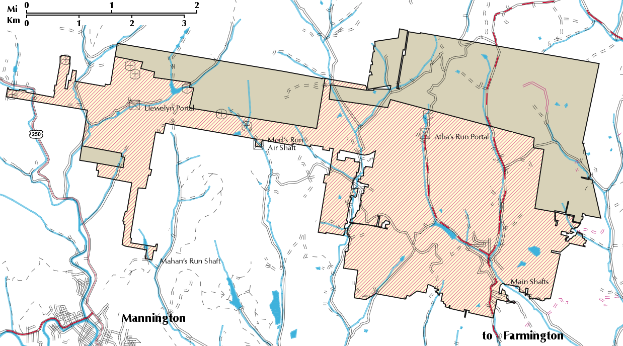 Map of Consol No. 9 coal mine, site of the Farmington Mine disaster in relation to surface roads and streams. At the time of the disaster, the pink area was developed as a room and pillar mine, while retreat mining had been completed in the brown area. Highway names, town names and map scale added June 24, 2009 by the uploader, who extends no copyright claims over these additions.